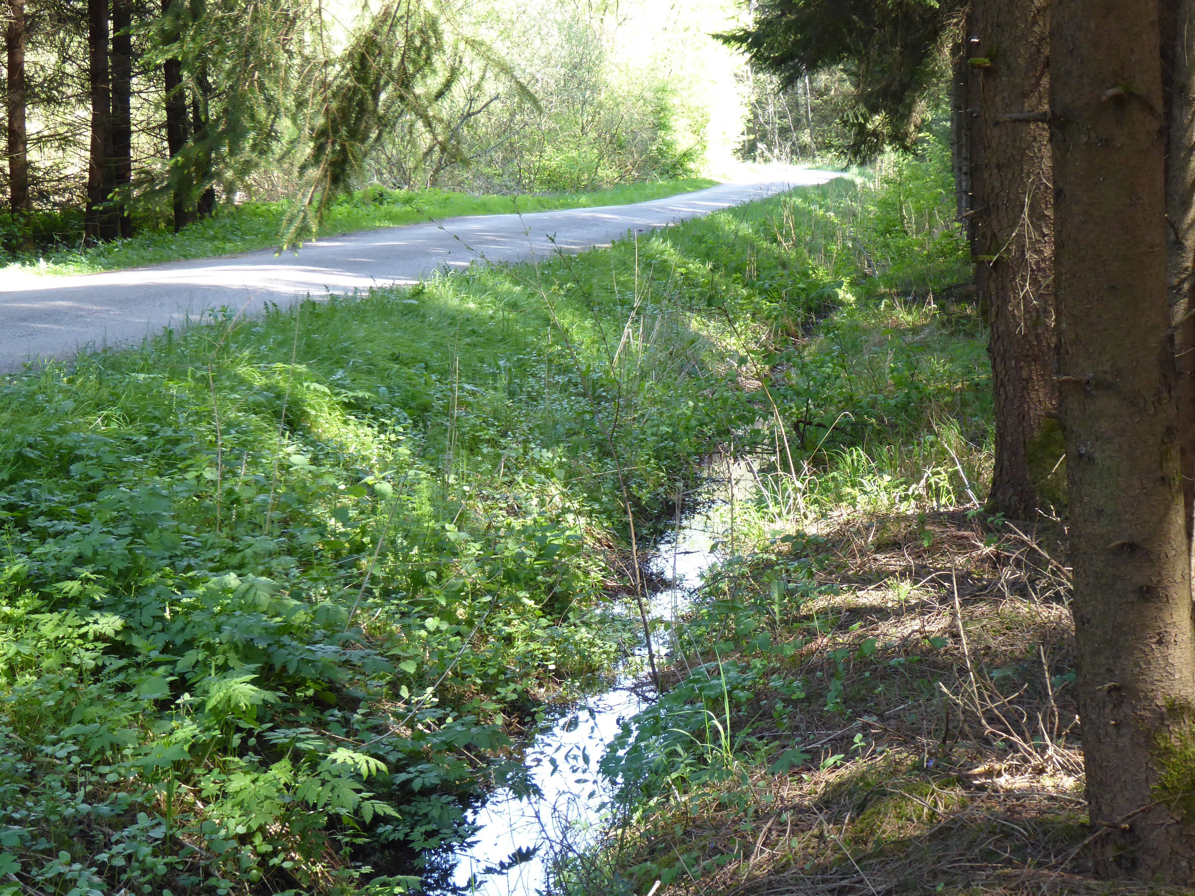 The river Aschach (tributary of the Rott, being itself a tributary of the Inn at Rott am Inn), Bavaria, Germany. Direction of flow from the foreground to the background.